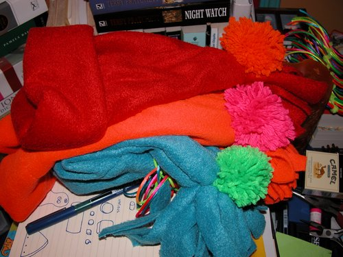 Polar fleece, with day-glo pom-pom, warm and big.